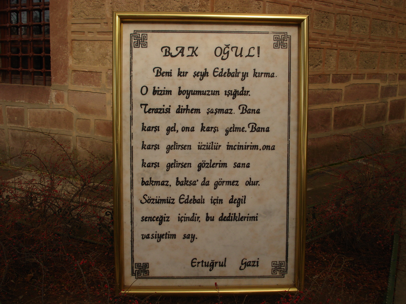 Ertuğrul's letter to his son Osman I in the garden of the Ertuğrul Gazi's grave in Söğüt